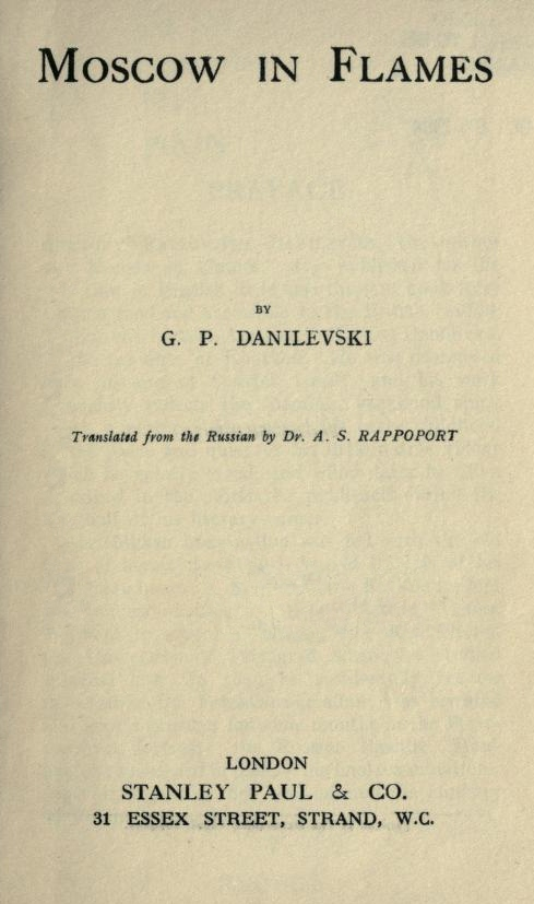 Title Page of Moscow In Flames by Danilevsky